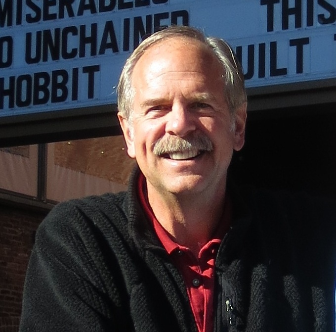 John Naber in California, United States